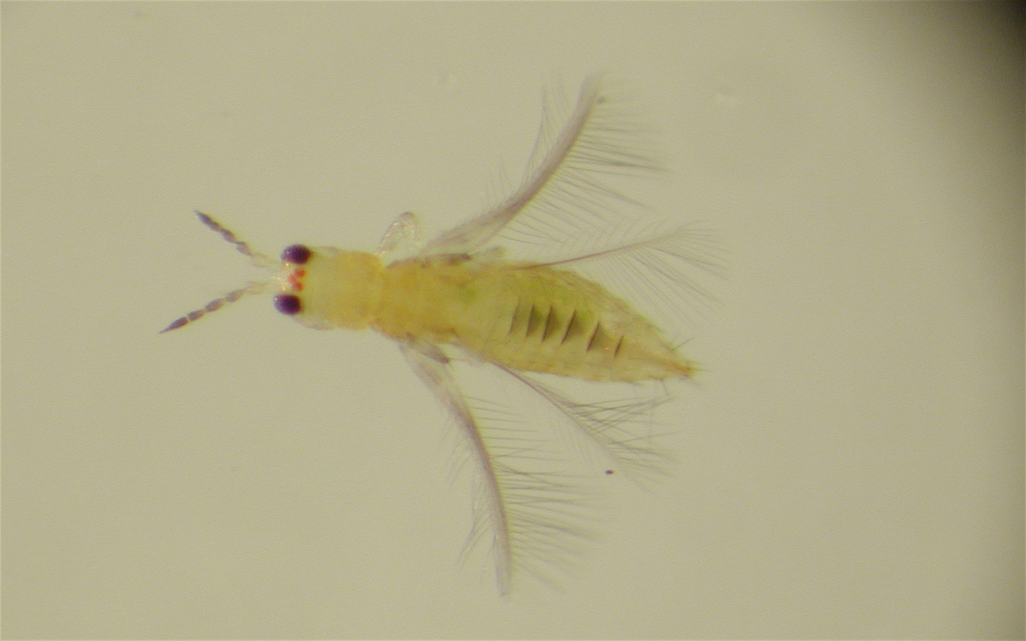 Dorsal view of spread Scirtothrips dorsalis female removed from Capsicum chinense floating in 70% etOH; taken on 6/1/07 at TREC, University of Florida.